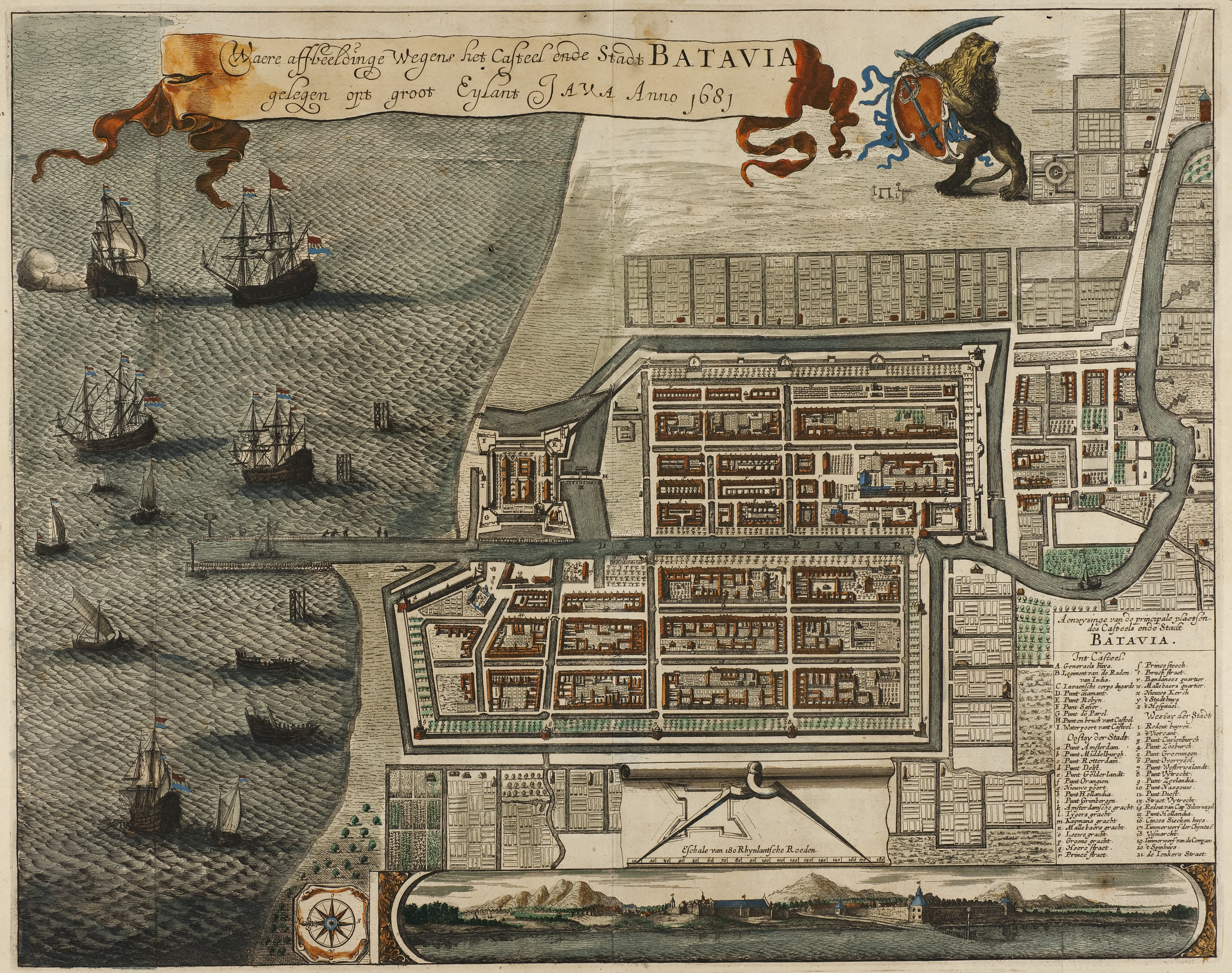 Map of the Castle and the City of Batavia, on the island of Java (now Jakarta, Indonesia)